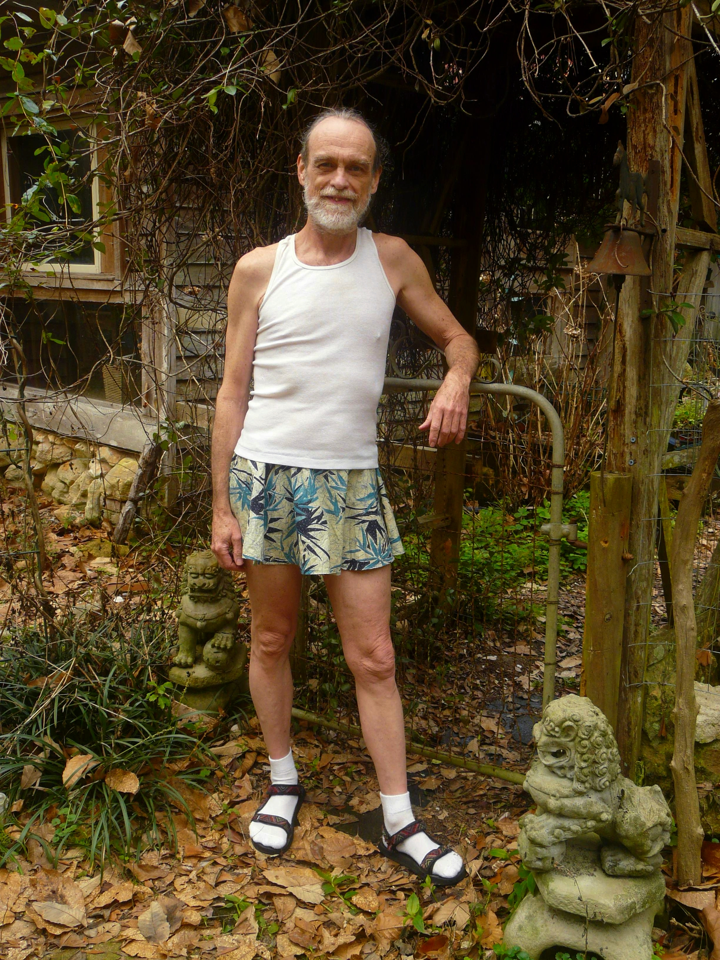 A man wearing a tank top and men's skirt with socks and sandals is standing next to an old metal gate..